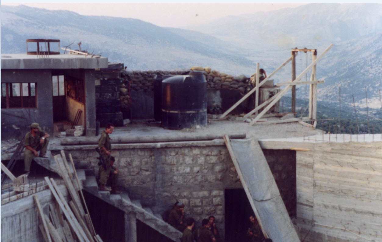 תמונה ששלחו לי החברה מעורב צנחנים מסוג'וד 1993. בתמונה ניתן לראות יורד במדרגות את סגן אברהם מילר ז"ל . בן נעמי ויחזקאל, נולד בבני ברק בי"ח בכסלו תשל"א , 16/12/1970 התגורר ברעננה התגייס בפברואר 1990. ב-9 ביולי עלה כח של עורב צנחנים לתחזק את המוצב בסוג`וד שהוחזק ע"י חיילי צד"ל מאחר שהכח הגיע למוצב החלו חילופי אש עם כפר שכן למוצב. בשעה 2 אחר הצהריים השתרר שקט במוצב, שחר רפאלי חייל של אבי עלה לעמדה כדי להביא אוכל לאבי, רגע לאחר שעלה לעמדה נורה טיל שפגע פגיעה ישירה בעמדה, אבי נהרג במקום, שחר נפטר זמן קצר לאחר מכן מפצעיו. זמן קצר לאחר מכן יצא כח נוסף של היחידה בכדי לתגבר את הכח בסוג`וד. בדרכו לשם ספג הכח עוד הפגזה בה נפצע יונתן בויידן סמל של אבי ונפטר 10 ימים אחר כך מפצעיו ונהרג סמל דניאל. בתקופה זו אבי היה קצין יחיד (פיקד גם על הצוות של צור), צור שהיה קצין נוסף ביחידה נפגע אחרי 18 במאי בעת חילוץ כח של שריון ממארב גדול שהתבצע במזרעת אטמקע ושותק מרסיס שפגע בו. צור ואבי היו חברים טובים. חודש אחרי מותו של אבי נפטר צור כתוצאה מסיבוך רפואי